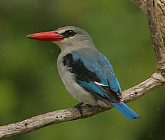 Taken at the Sabaki Rivermouth, Kenya -in the dry season!